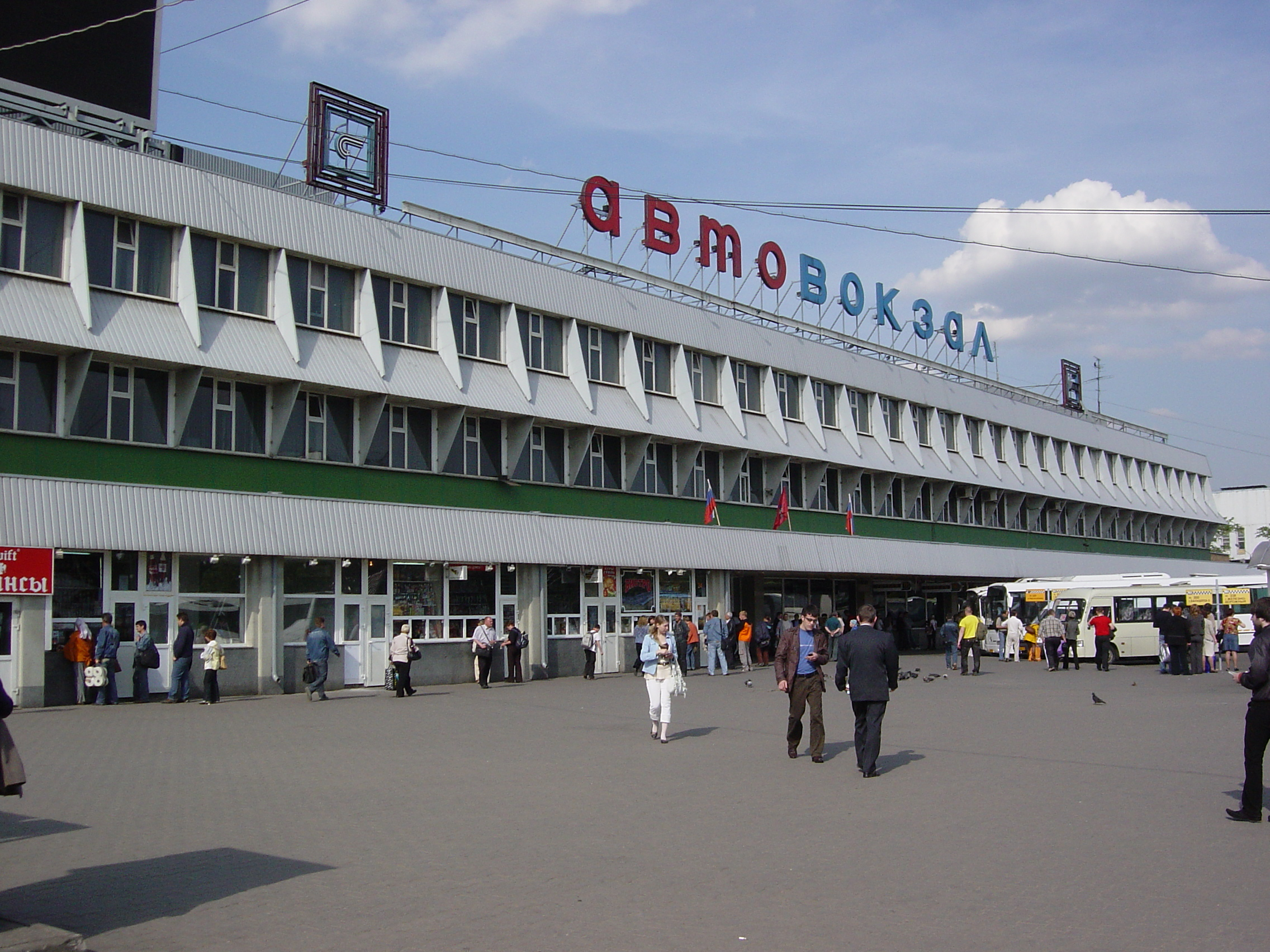 Moscow Central Bus Terminal